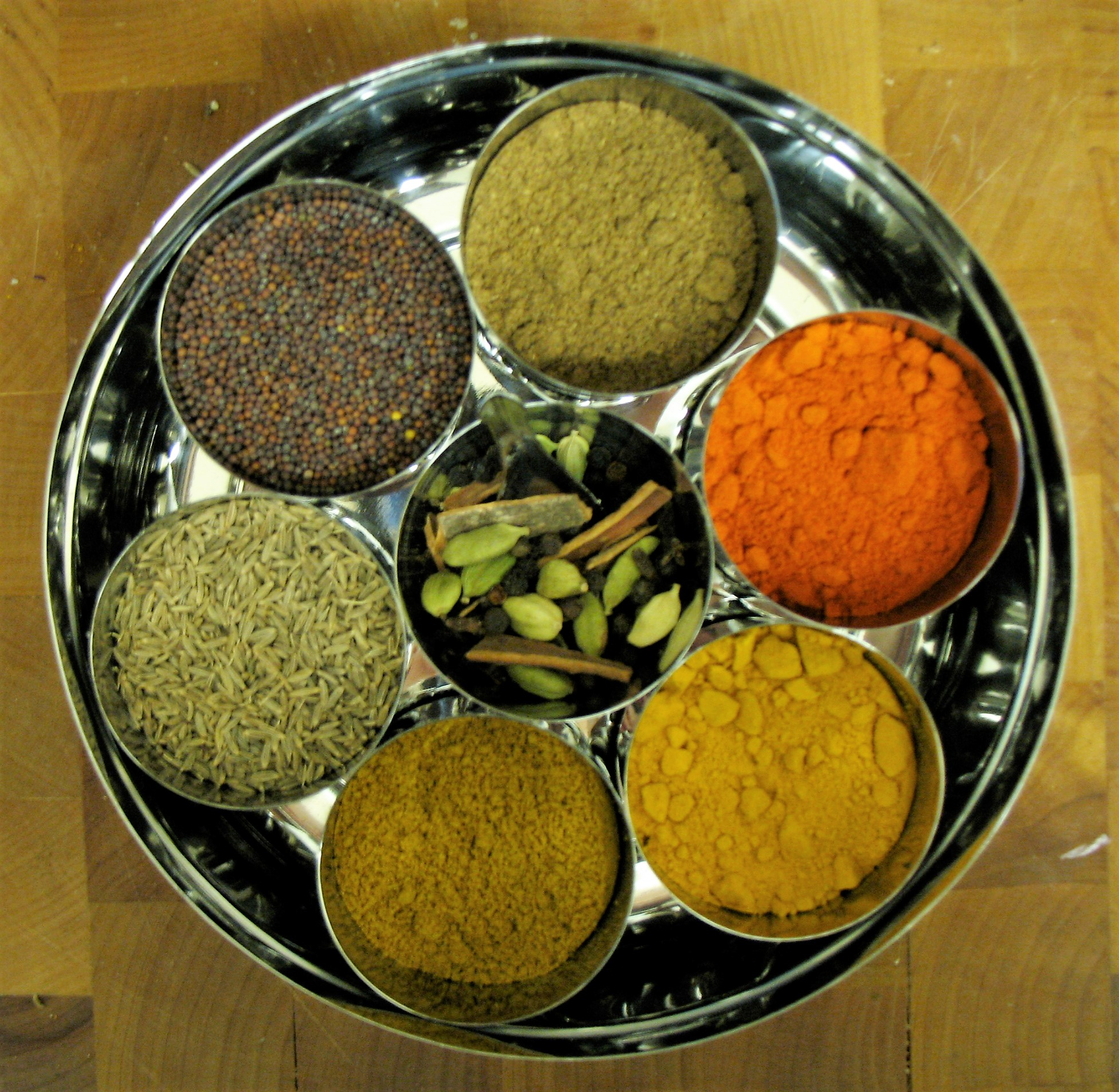 Indian spice (Original Description) I bought my very own masala box today - how exciting! I had fun filling it up with nice things (see the notes for more info...) (Notes) Clockwise from top: Curry powder, Chilli powder, Turmeric, Garam Masala, Cumin seeds, Black mustard seeds. Center: Cloves, peppercorns and other nice treats.